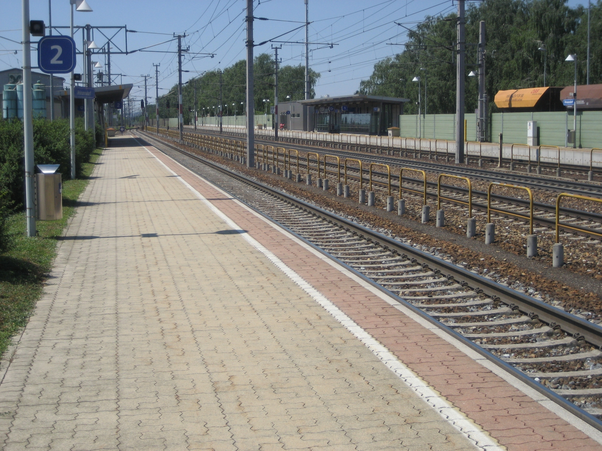 Prinzersdorf train station in Lower Austria